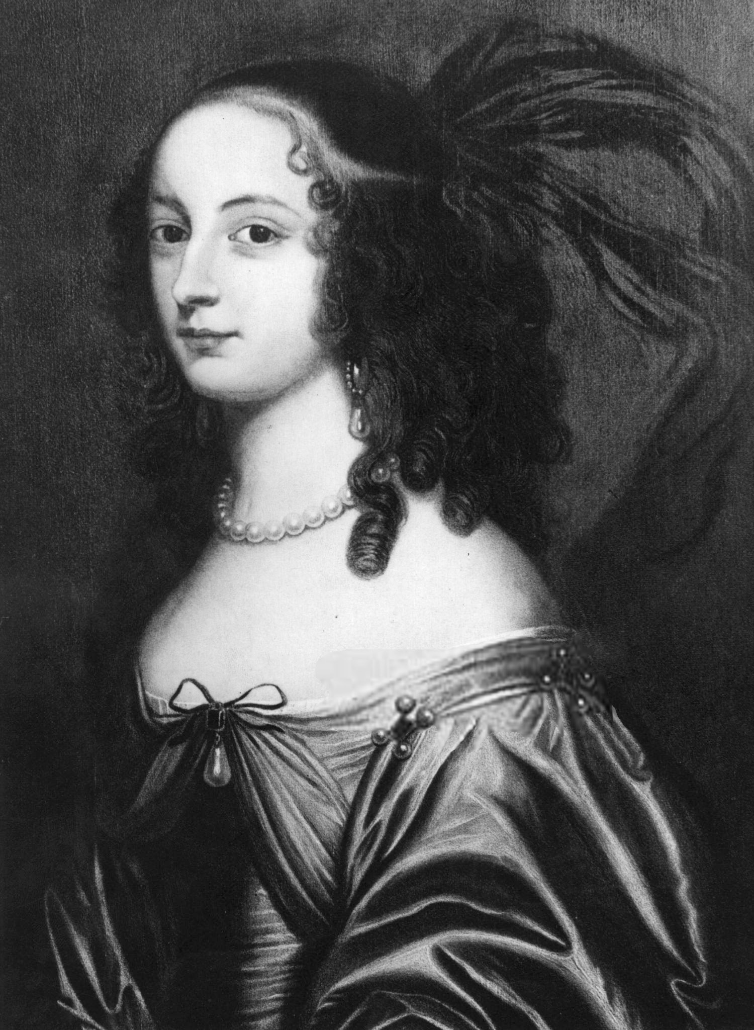 Sophia, Princess Palatine (1630-1714)